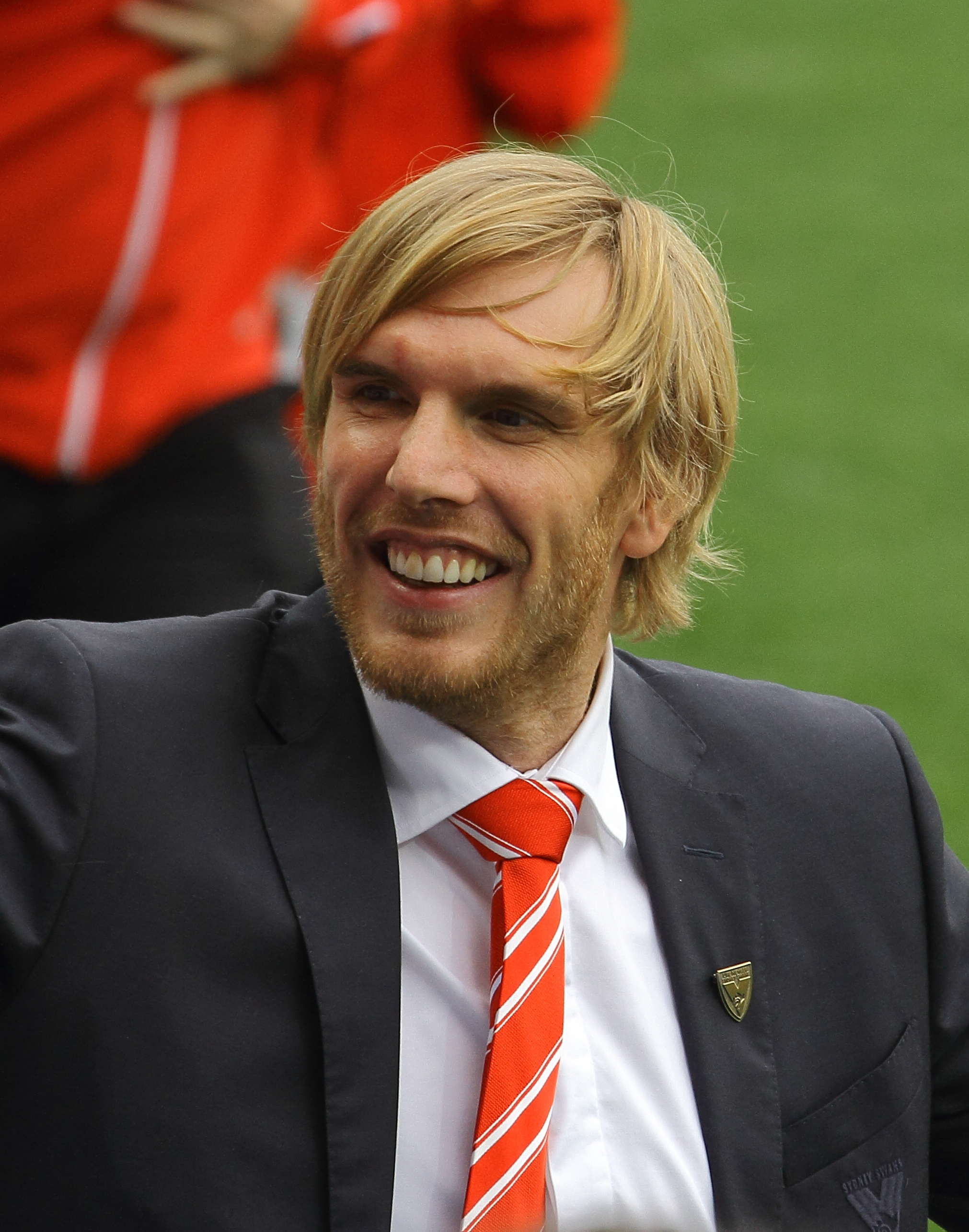 Lewis Roberts-Thomson says goodbye to the fans after announcing his retirement. Sydney Cricket Ground, 16th September 2014.